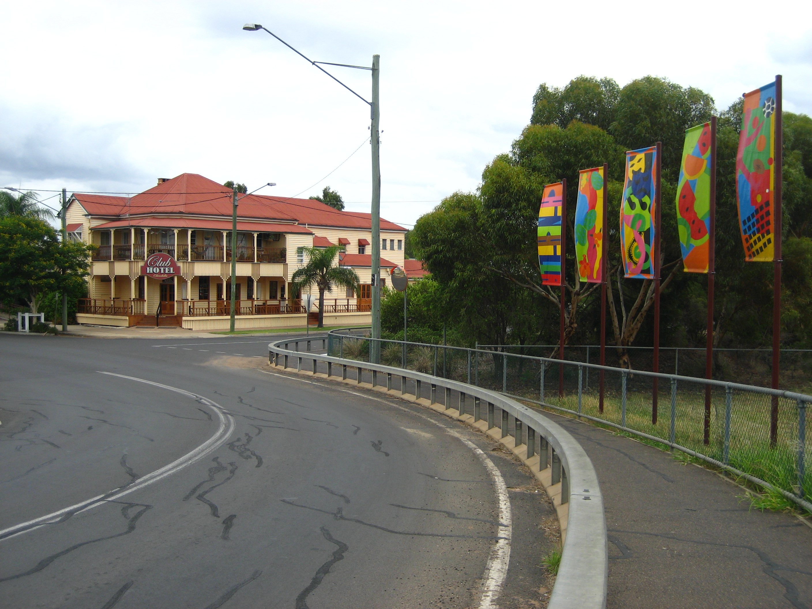 Photo taken from the overhead pass of the Chinchilla Club Hotel and some town banners.